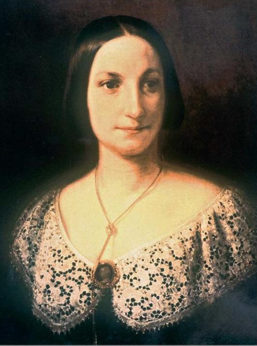 Portrait of the Italian opera singer Fanny Salvini-Donatelli (c.1815 – 1891) . The original portrait, once held in the Teatro La Fenice archives, was lost when the opera house was destroyed by a fire in 1996.